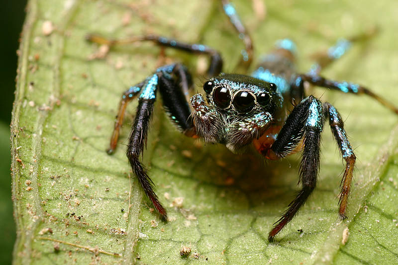 Picture of a jumping spider, Thiania bhamoensis